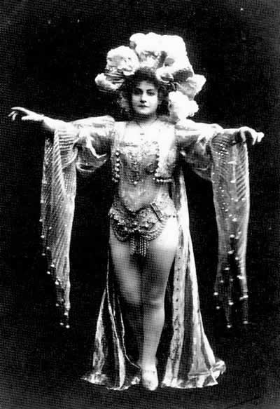 The music hall performer Marie Loftus (1857-1940) displays one of her ornate stage costumes c1897